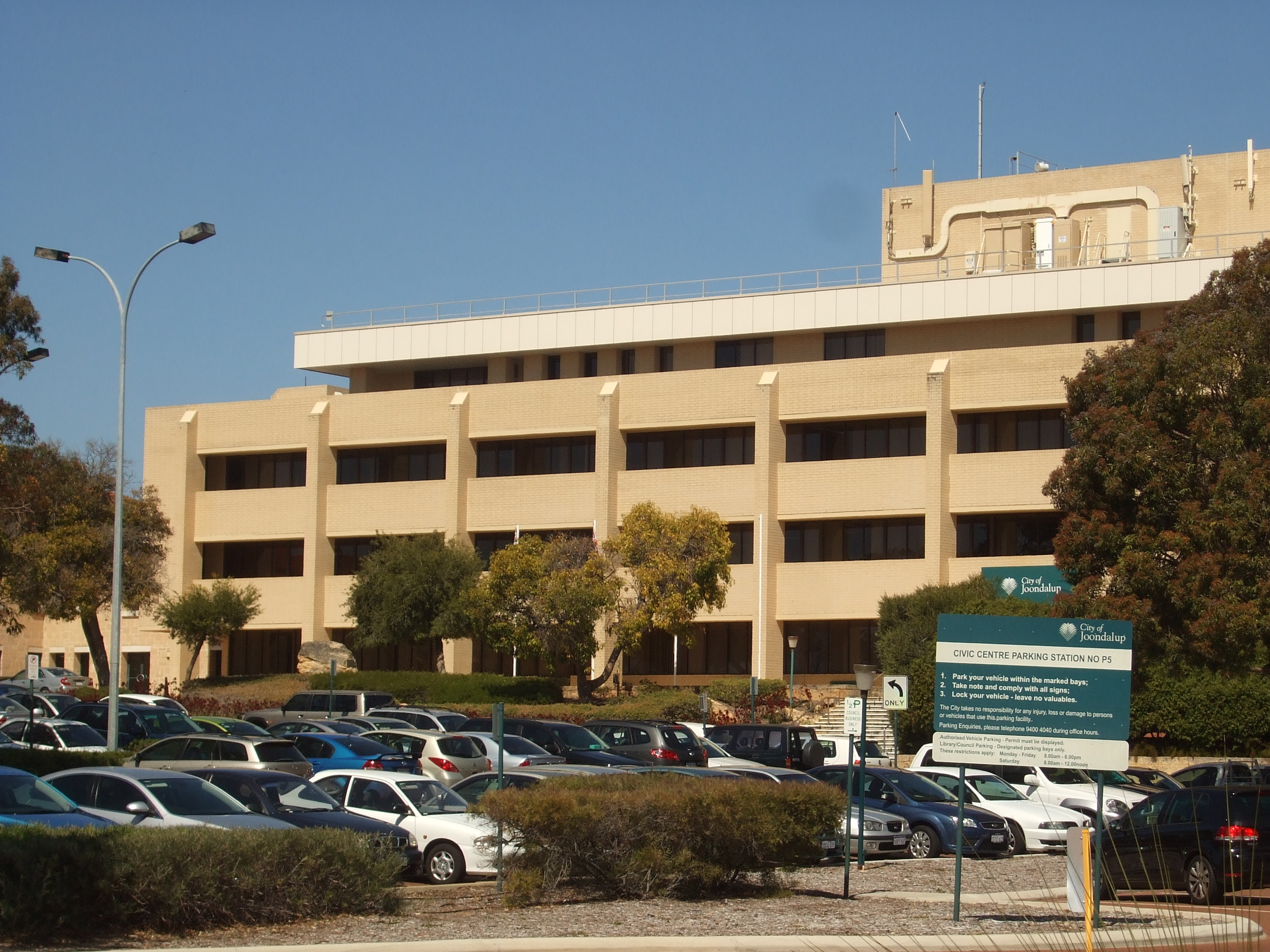 A view of the City of Joondalup offices from Boas Avenue.